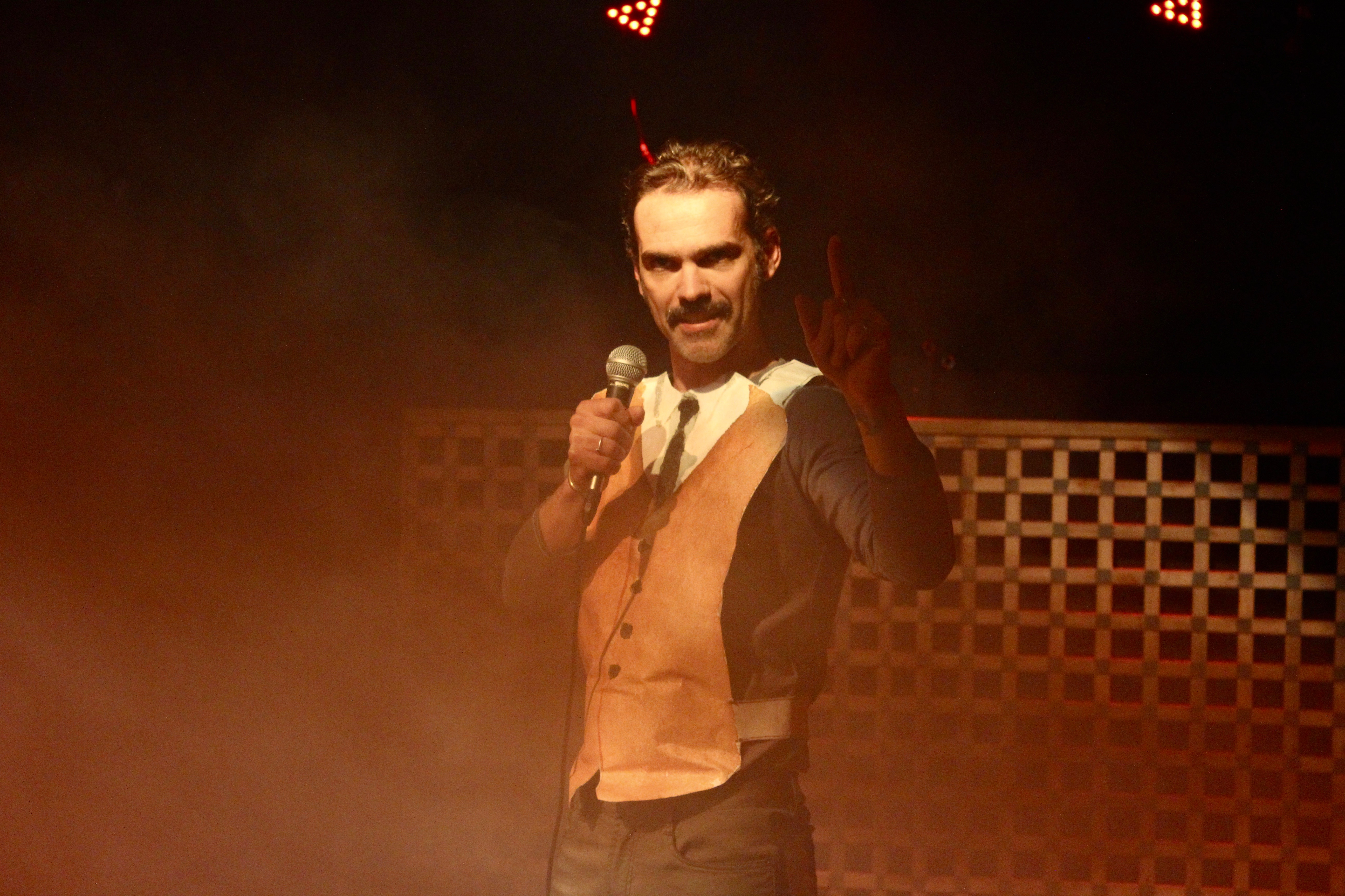 Chad Mombardo, played by Alec S. Hall, in the play Out of the Ordinary.